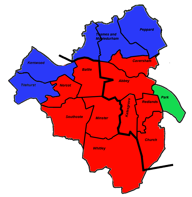 Electoral breakdown of the 2018 Reading Borough Council Local Elections